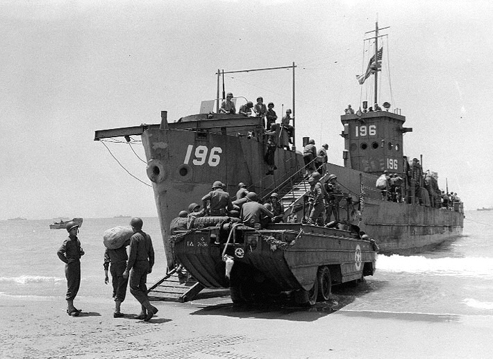 Sicily Invasion, July 1943. Soldiers loading bags and other items from a DUKW to USS LCI(L)-196, in the Scoglitti area. USS LCI(L)-196 (1943-1947), later LCI(G)-196 USS LCI(L)-196, a 246-ton landing craft, infantry, was built by the Federal Shipbuilding and Drydock Company and commissioned in February 1943. She served in the Mediterranean Sea during 1943-44, participating in the invasions of Sicily, Salerno, Anzio, Elba and Southern France. Modified for gunfire support of amphibious operations and renamed LCI(G)-196 in July 1945, she took part in occupation service in the western Pacific and China areas during the last months of 1945. Decommissioned after that duty, LCI(G)-196 was transferred to the Maritime Commission for disposal in November 1947.